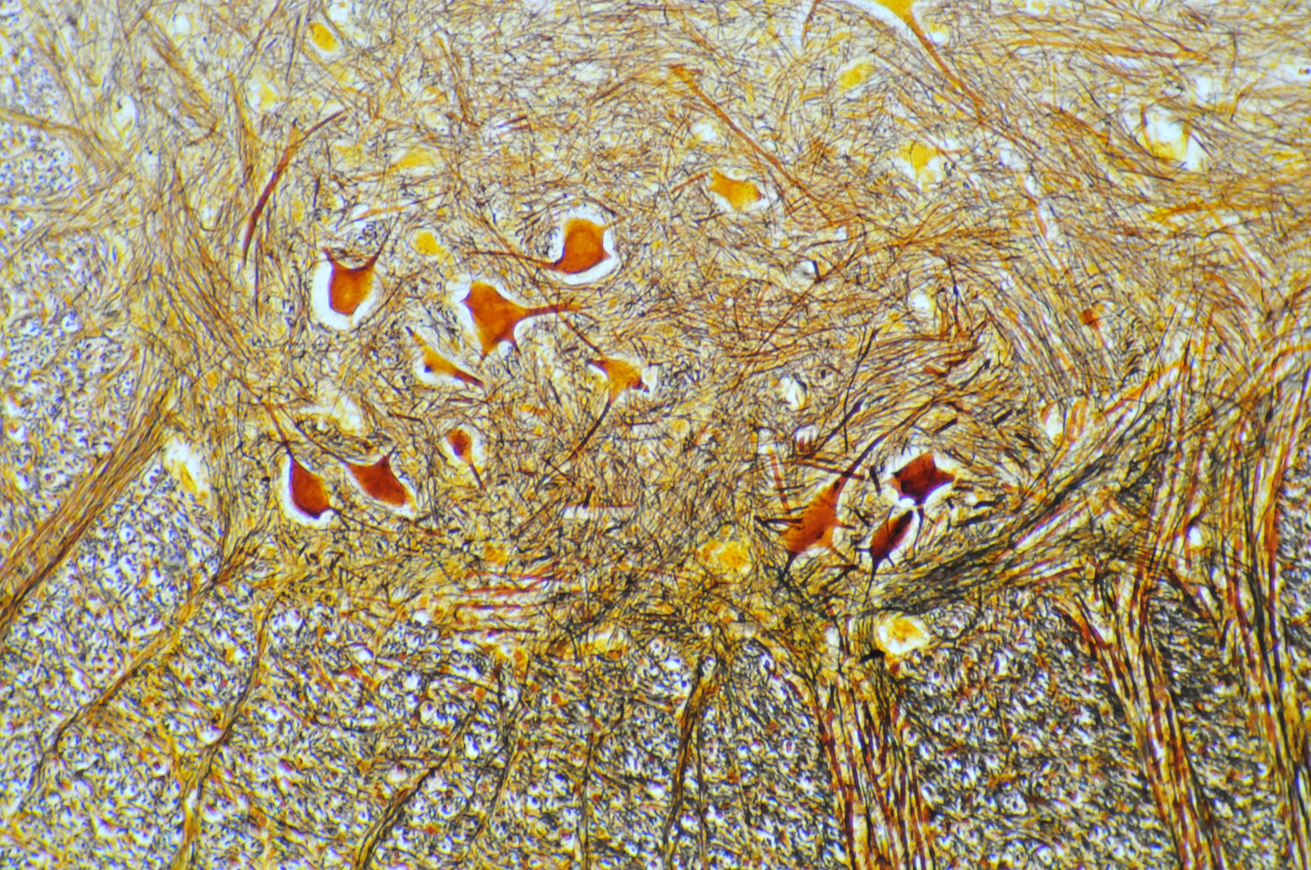 Neurons of rat spinal cord, Cajal stain.